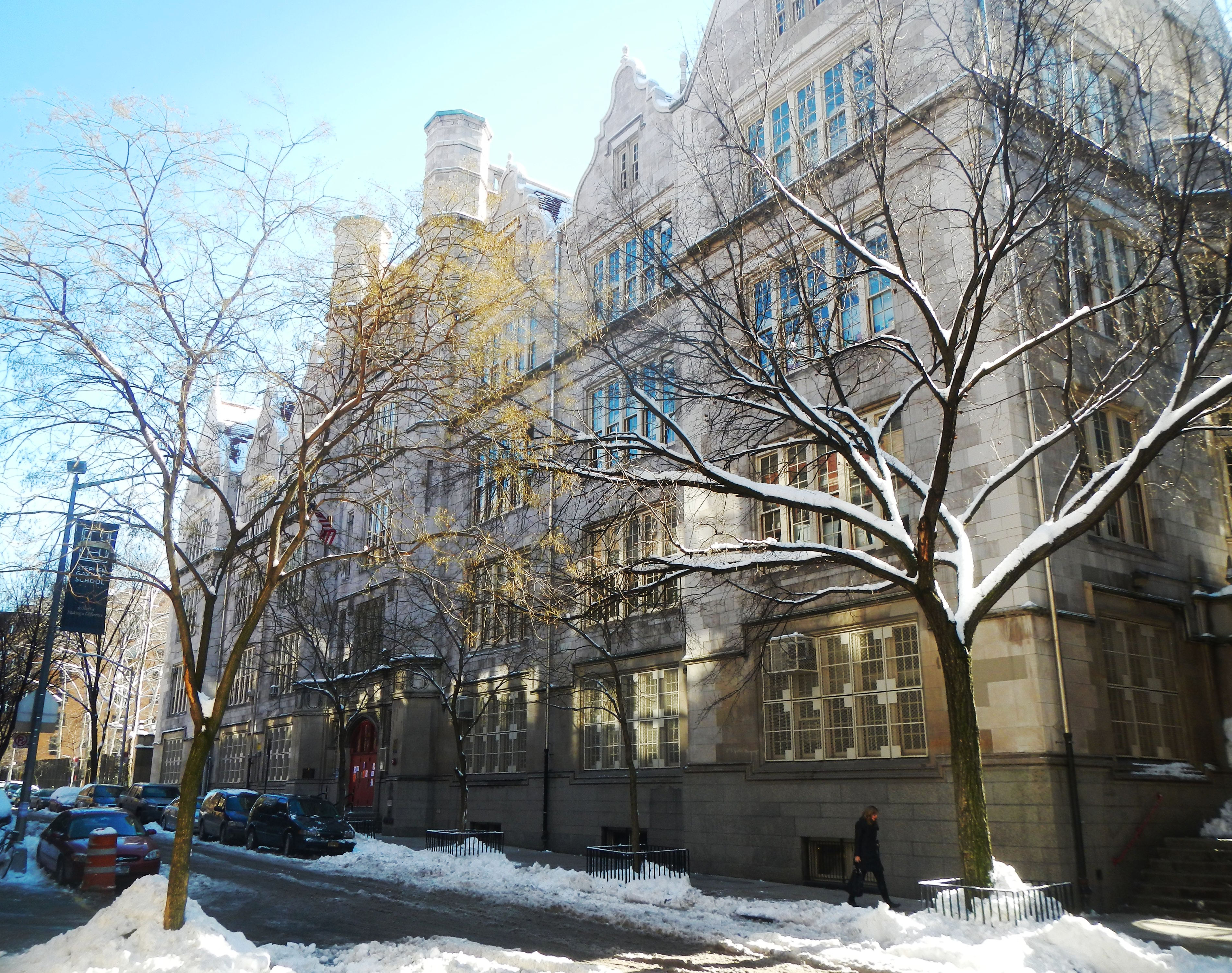 Looking south at PS 166 on a sunny early afternoon after snow.